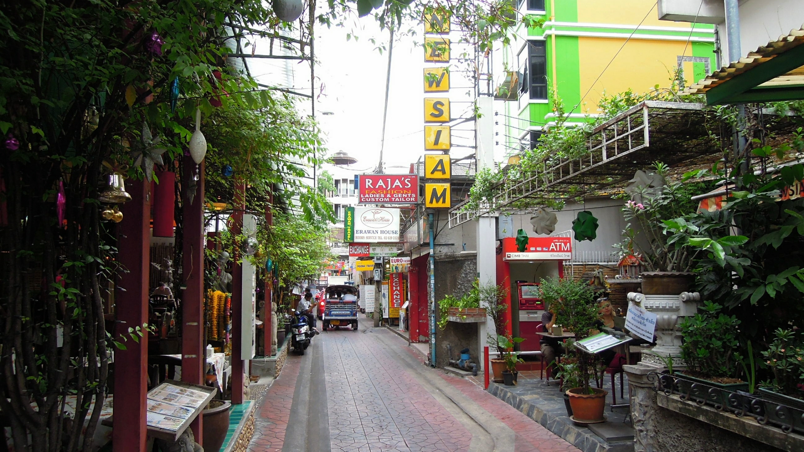 Soi Chana Songkhram in Bang Lamphu neighbourhood (near Khao San Road), Phra Nakhon district, Bangkok, with several hostels and guesthouses catering to backpackers.